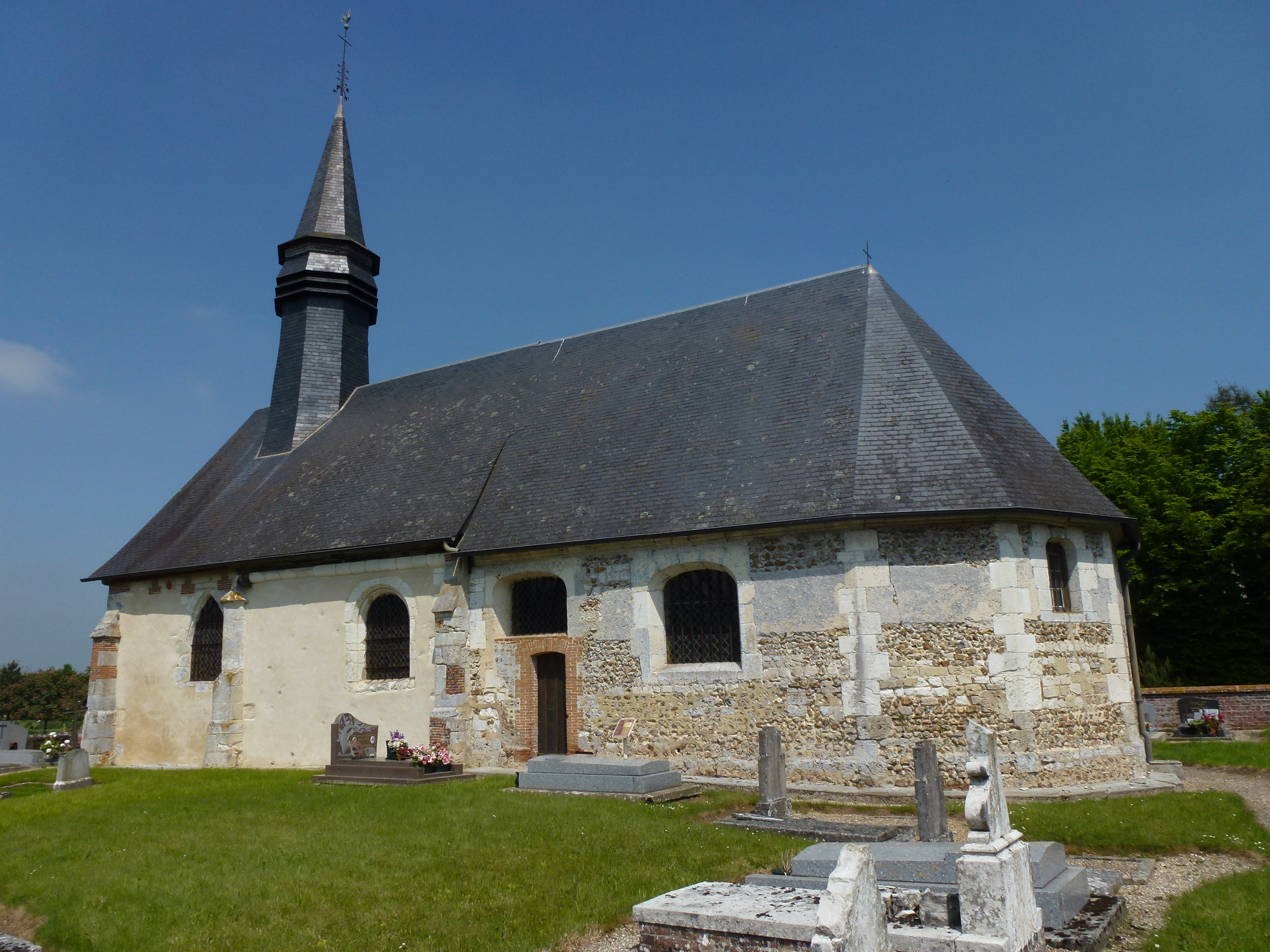 Barville (Eure, Fr) église